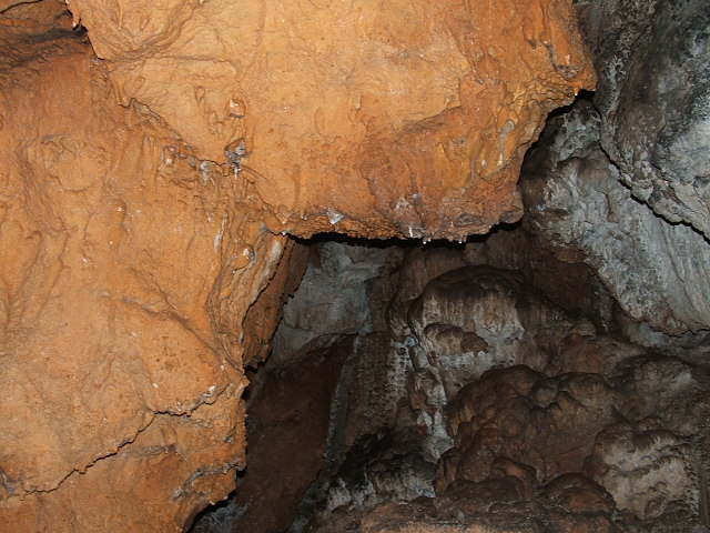 Socerb